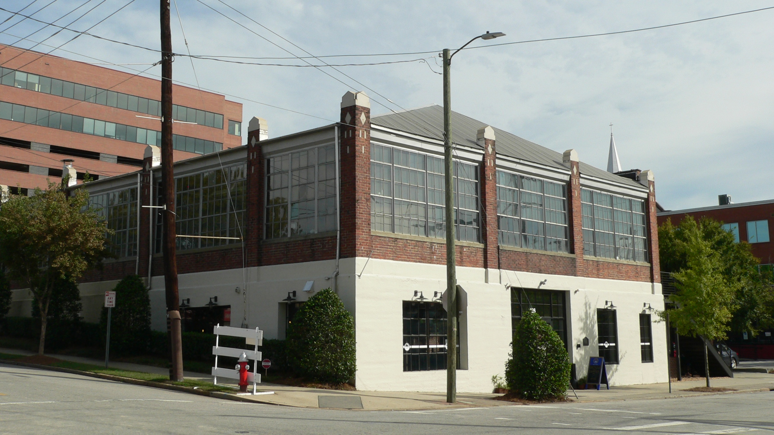 The Carolina Power and Light Company Car Barn and Automobile Garage as seen from across the intersection of Jones and West Streets.